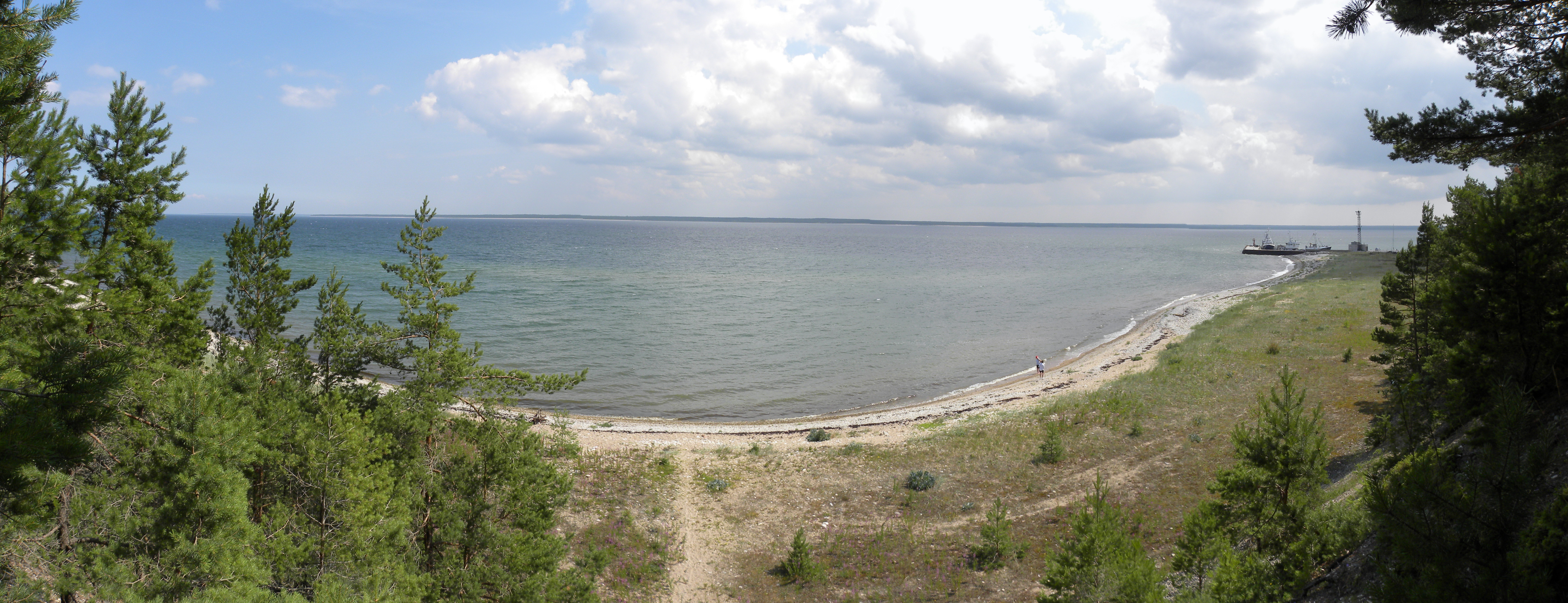 Panorama of Tagalaht Bay, Saaremaa Island, Estonia (from the western side).